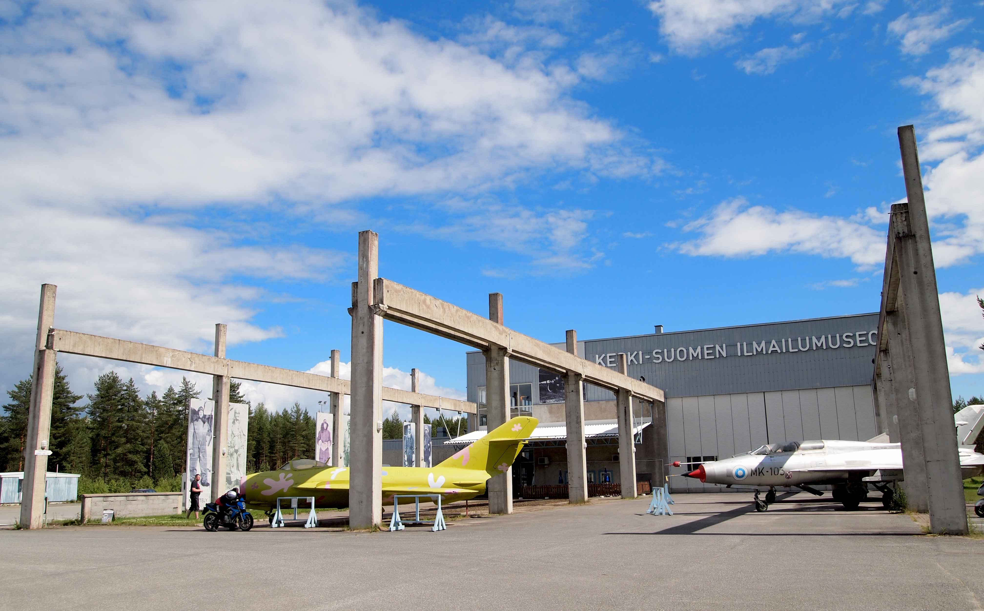 Aviation Museum of Central Finland, Tikkakoski, Jyväskylä.